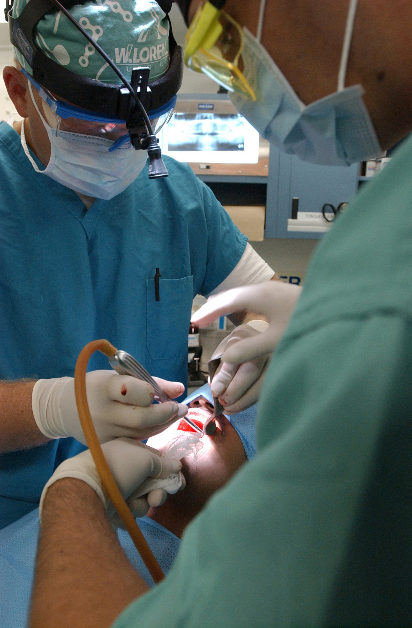 Atlantic Ocean (Jul. 28, 2003) -- Lt. Cmdr. Al Parulis (left), the ship's oral surgeon, aided by Dental Technician 2nd Class C.J. Garrison, applies gauze to a patient’s wisdom tooth during oral surgery in dental spaces aboard USS Ronald Reagan (CVN 76). Reagan is currently underway off the coast of Virginia conducting Flight Deck Certifications. U.S. Navy photo by Photographer’s Mate Airman Kyle L. O'Neill. (RELEASED)